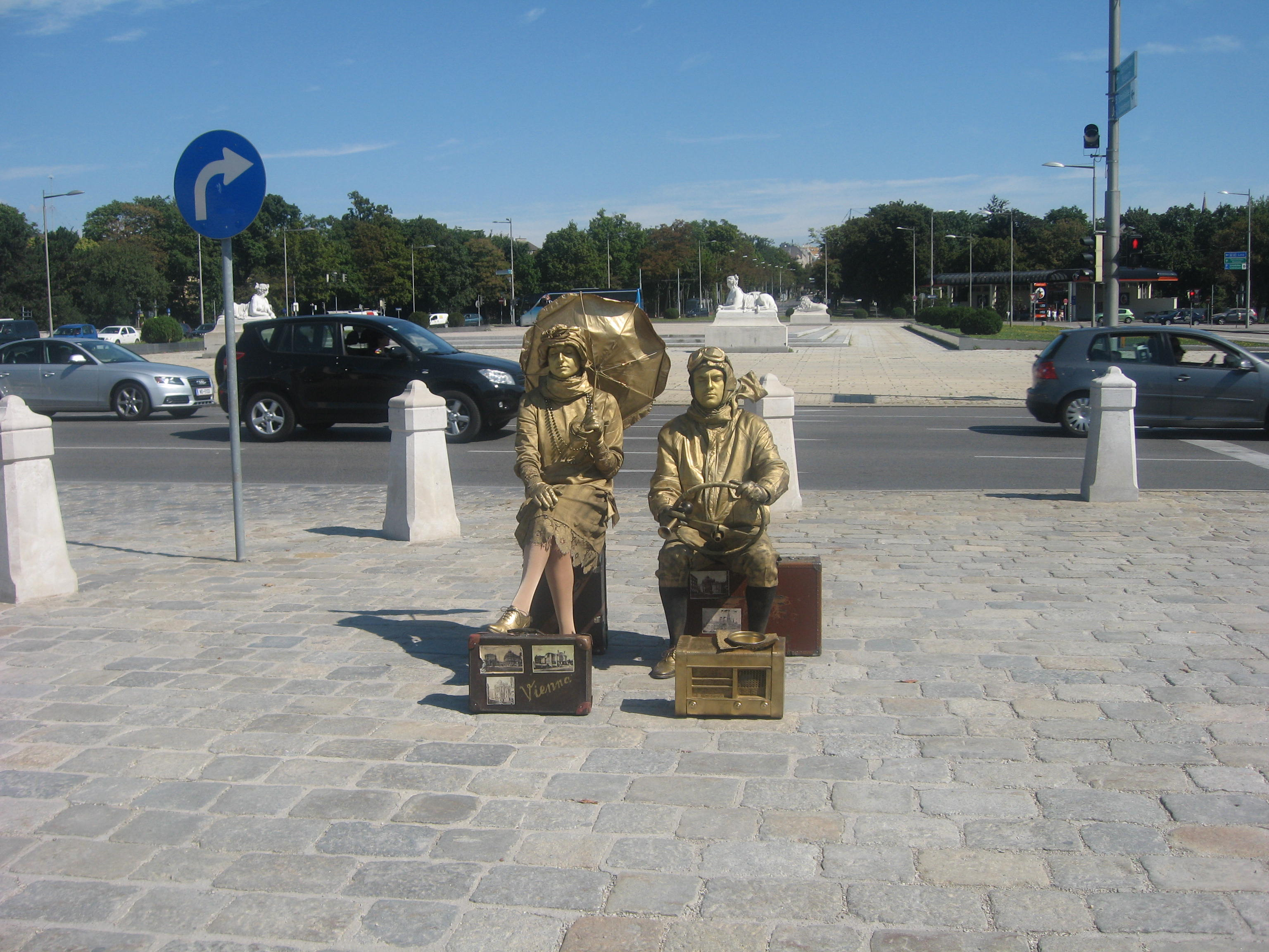 Living statues in Vienna, in front of Schonbrunn Castle